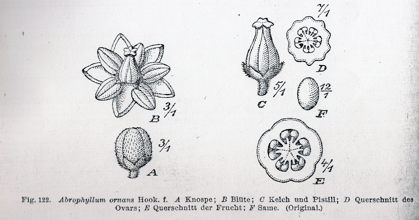 Source: Adolf Engler (1930) in Die NatÃ¼rlichen Pflanzenfamilien, XVIIIa, p. 213, 2nd Edition.